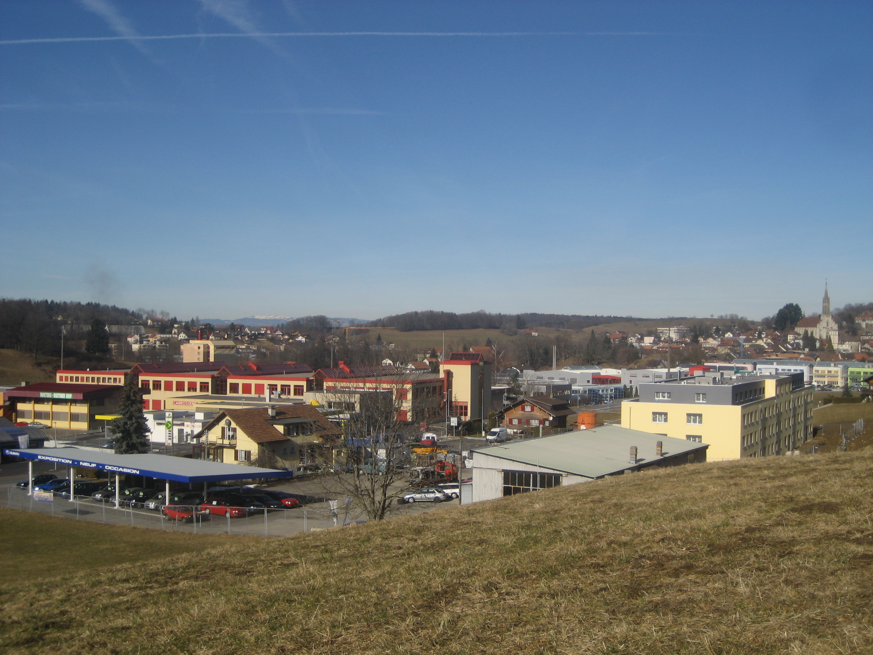 View of Châtel-St-Denis